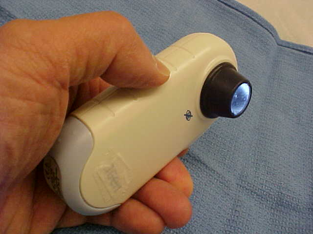 A battery powered double polarized dry dermatoscope made by 3GEN called the DERMLITE.